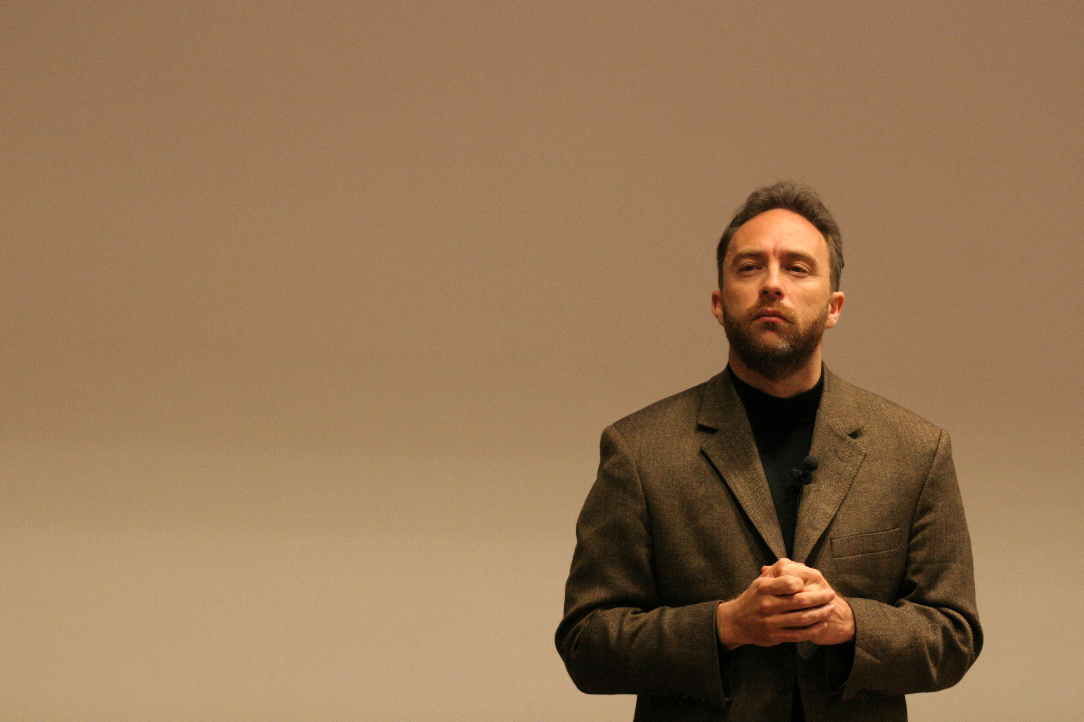 Jimbo Wales speaking at FOSDEM 2005 in Brussels, Belgium. 0 Focal Length: 118mm F-Stop: f/4.0